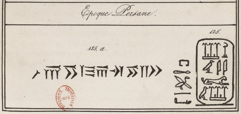 Tableau Général des signes et groupes hieroglyphiques No 125 (color)